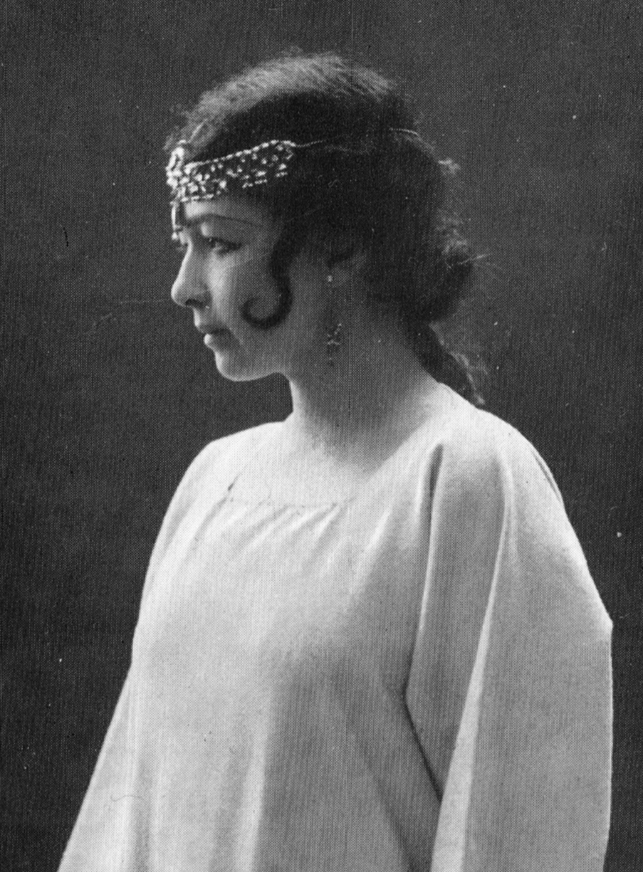 Photo of Harriet Bosse as Indra's daughter in A Dream Play by August Strindberg.